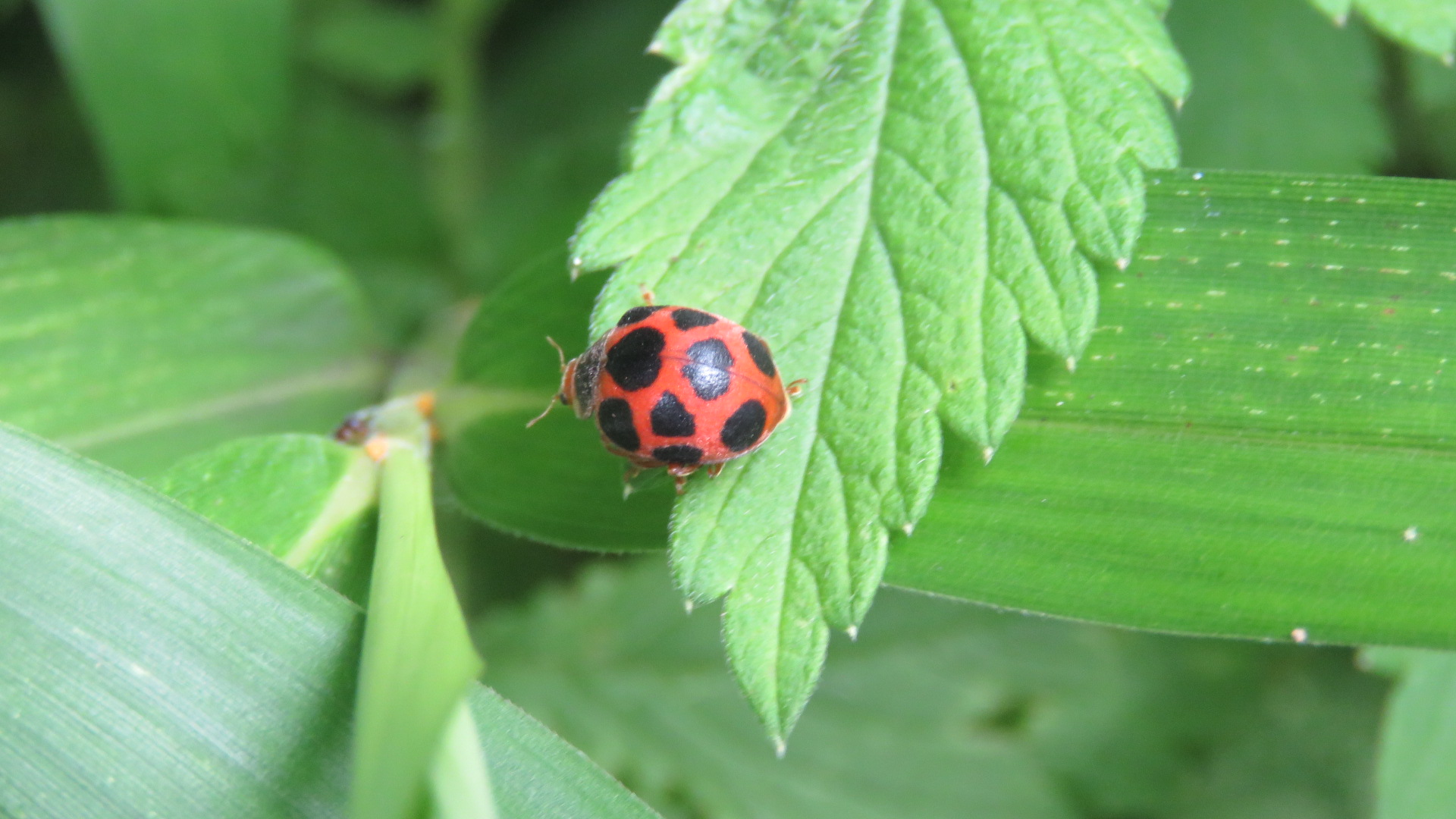 Institute for Nature Study, National Museum of Nature and Science, Shirokane, Tokyo, Japan.